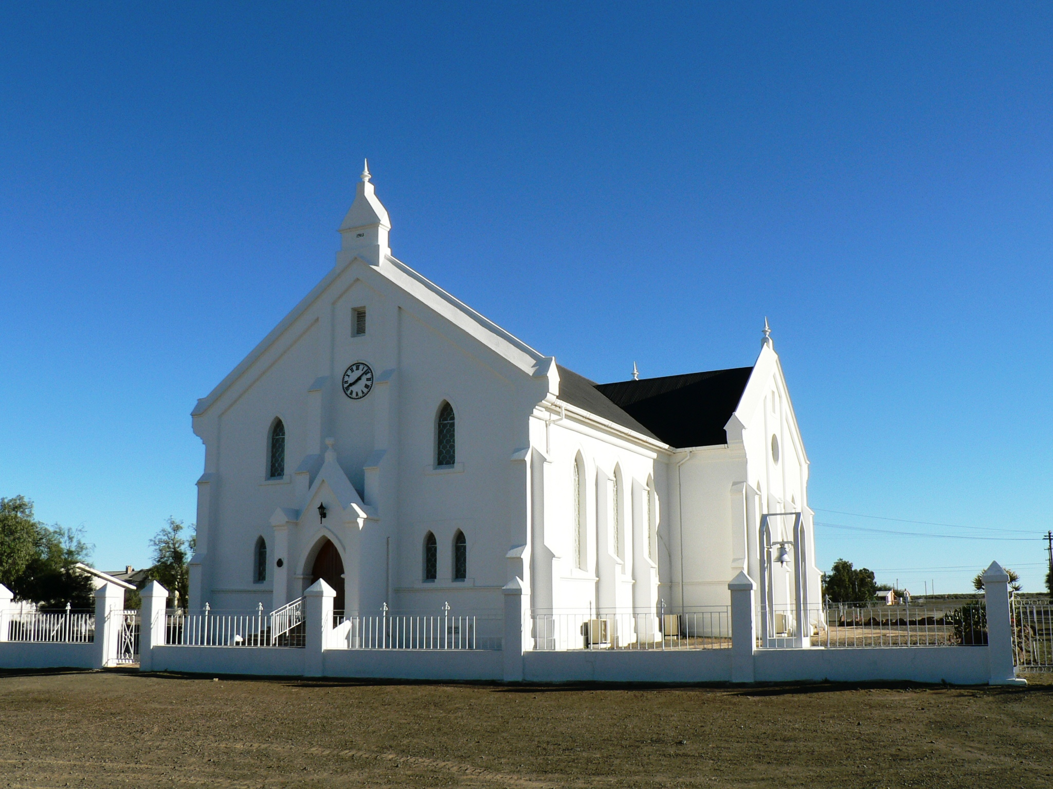 This media shows a South African Protected Site with SAHRA file reference 9/2/017/0001.